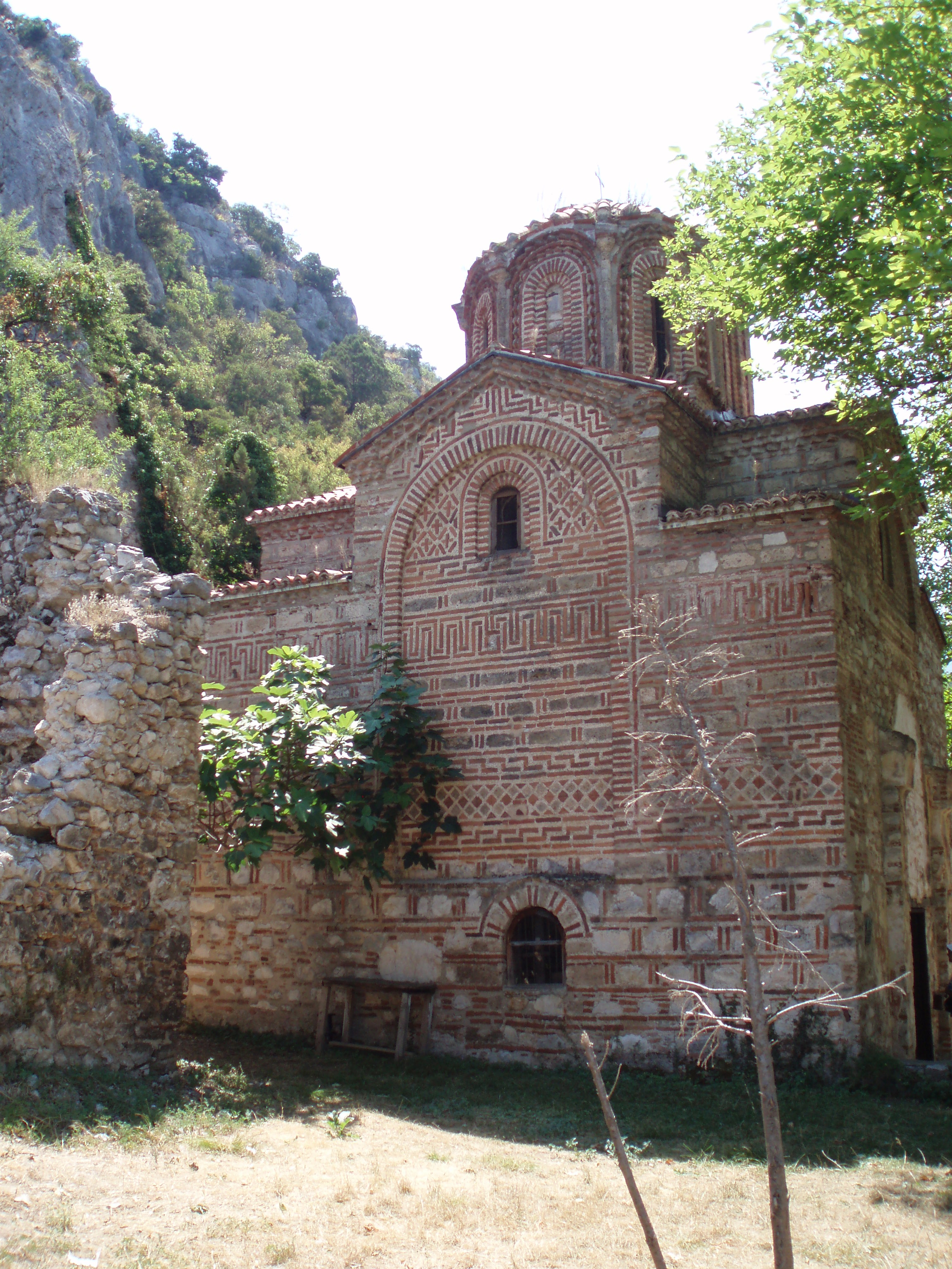 Saint Marys Church at the east side of Lake Ohrid